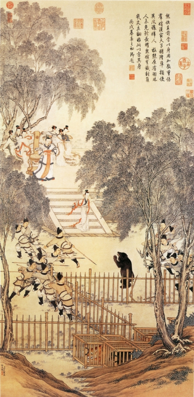 Jieyu Fighting against Bear, Jin Tingbiao, Qing Dynasty, China, Palace Museum, Beijing.